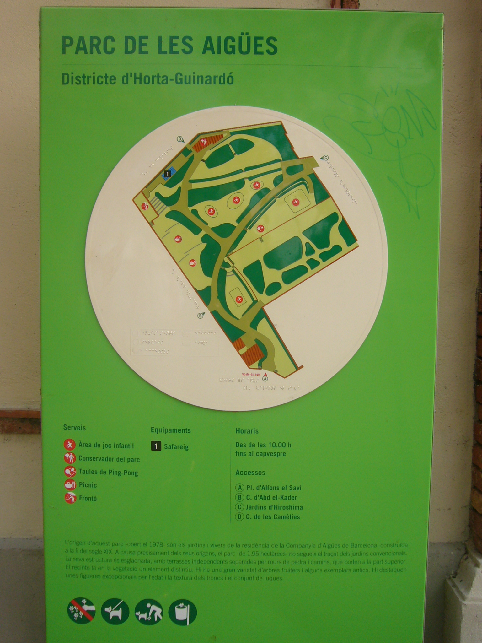 Map of Parc de les Aigües (Barcelona)